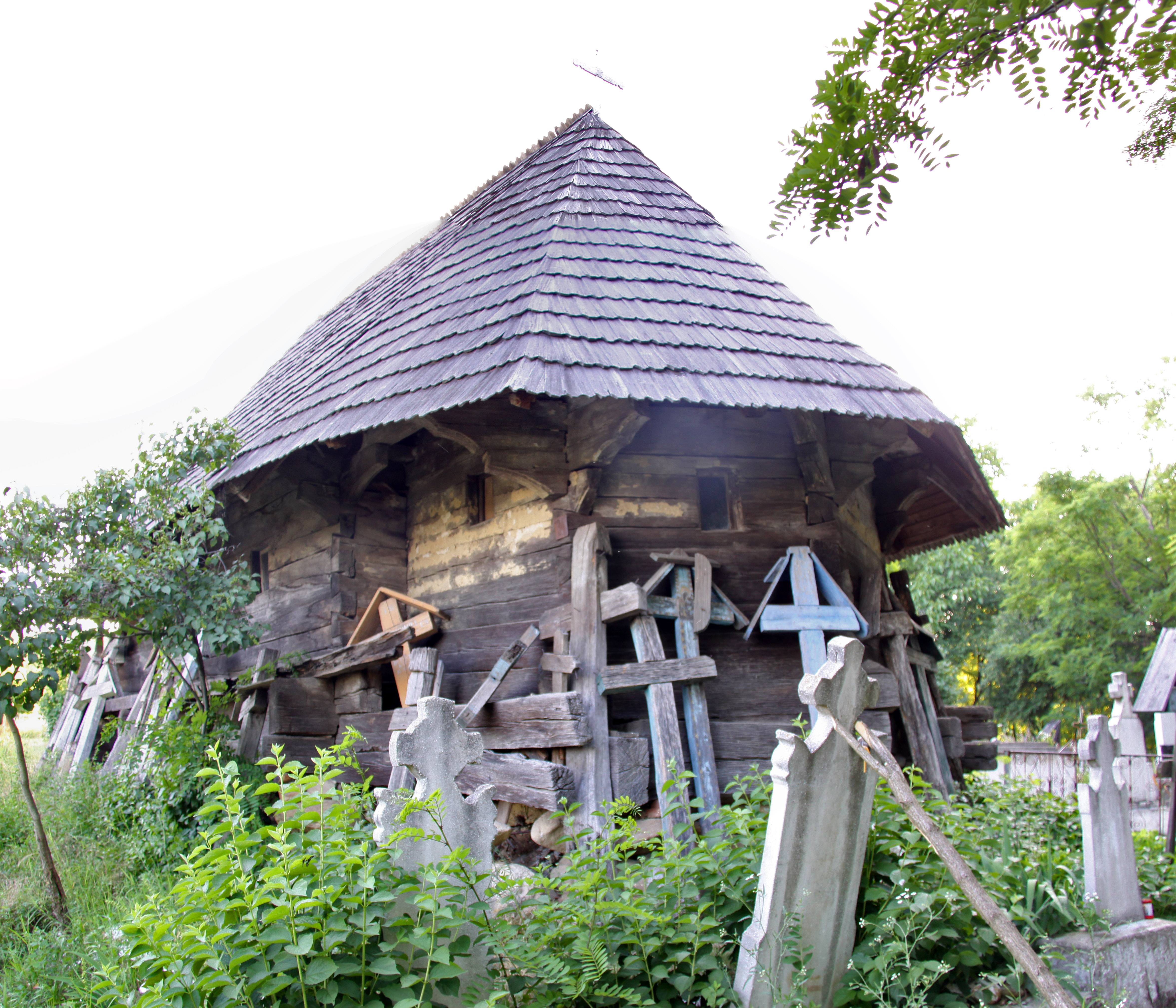 Comăneşti, Gorj county, Romania: the wooden church "la Biţa", from South-East.